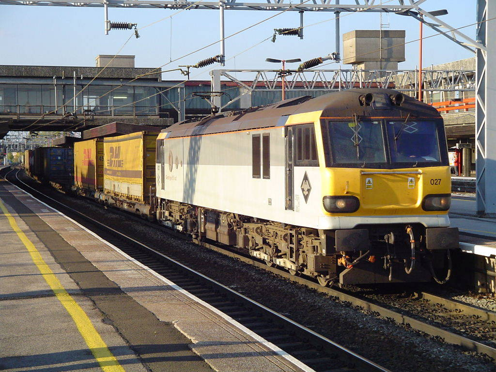 92027 George Eliot at Stafford with an intermodal train.